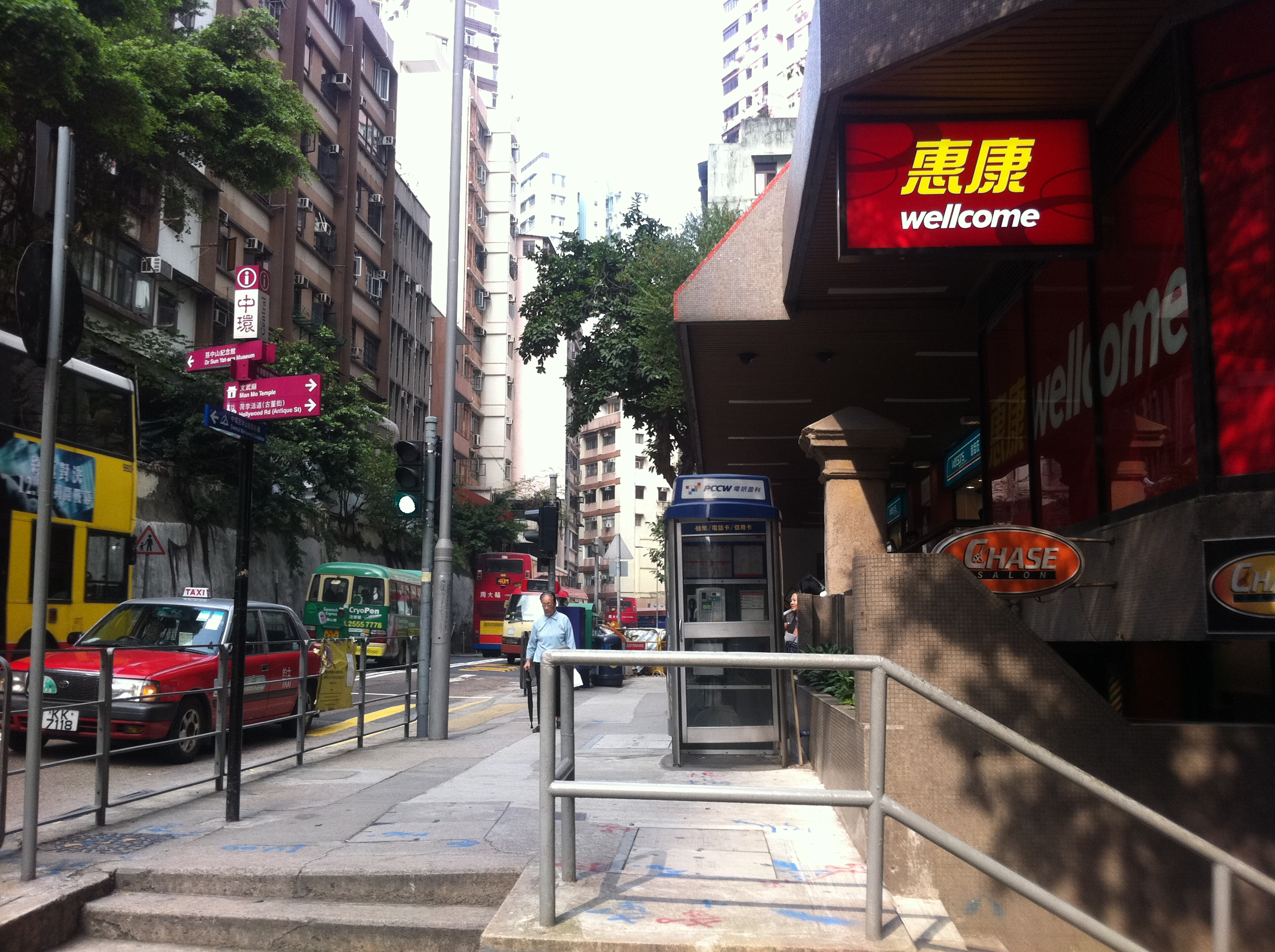 香港島 堅道 豐樂閣